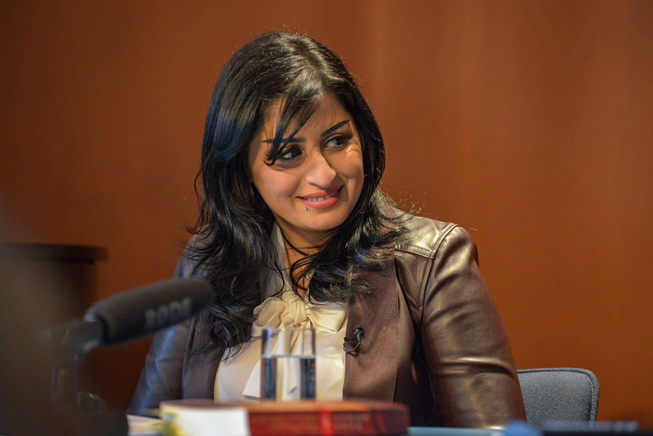 Autorin Rana Ahmad hält Lesung ihres Buches "Frauen dürfen hier nicht träumen" in Oberwesel, Dr. Michael Schmidt-Salomon moderiert Lesung 14. Januar 2018